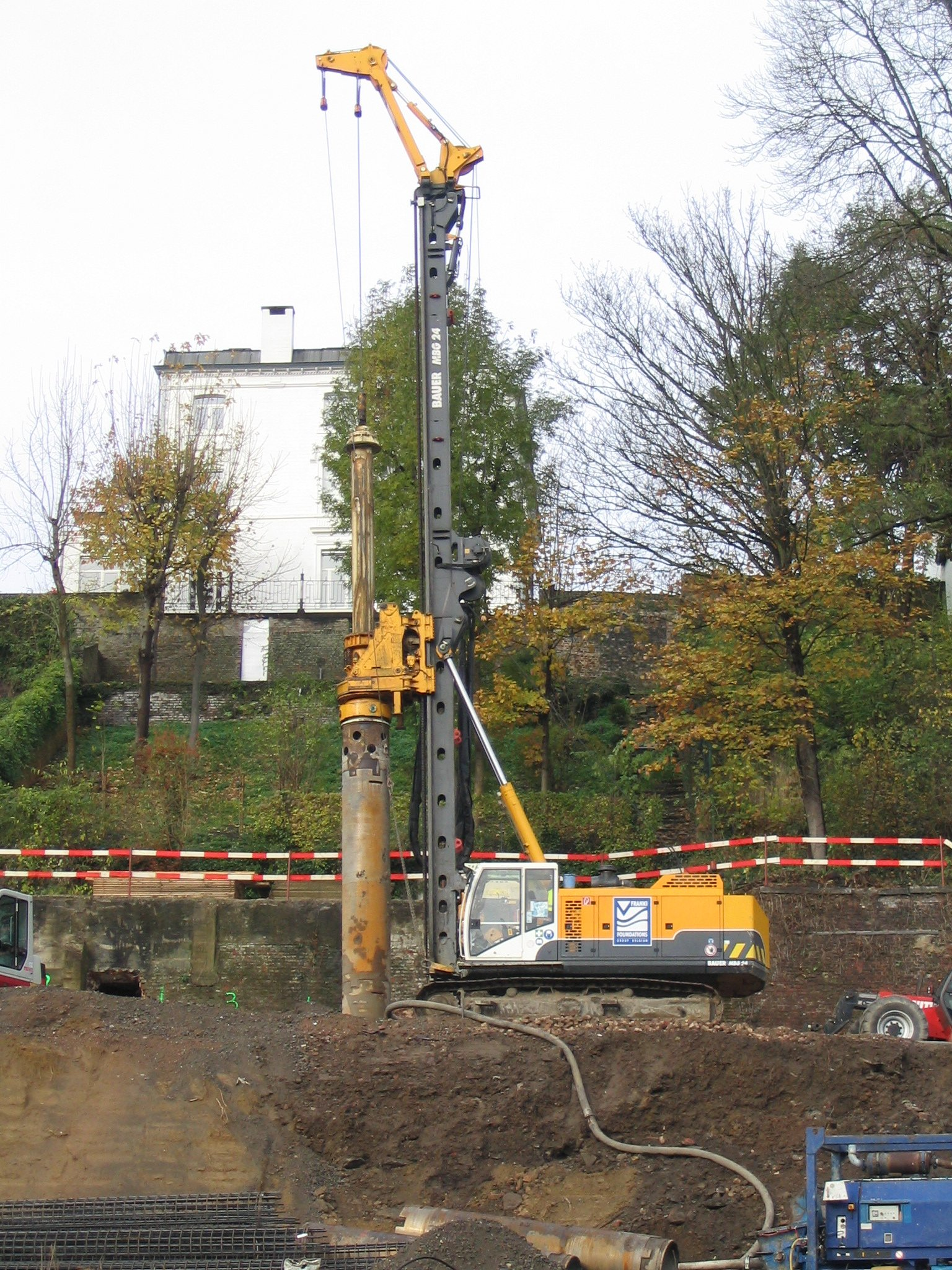 pile driving